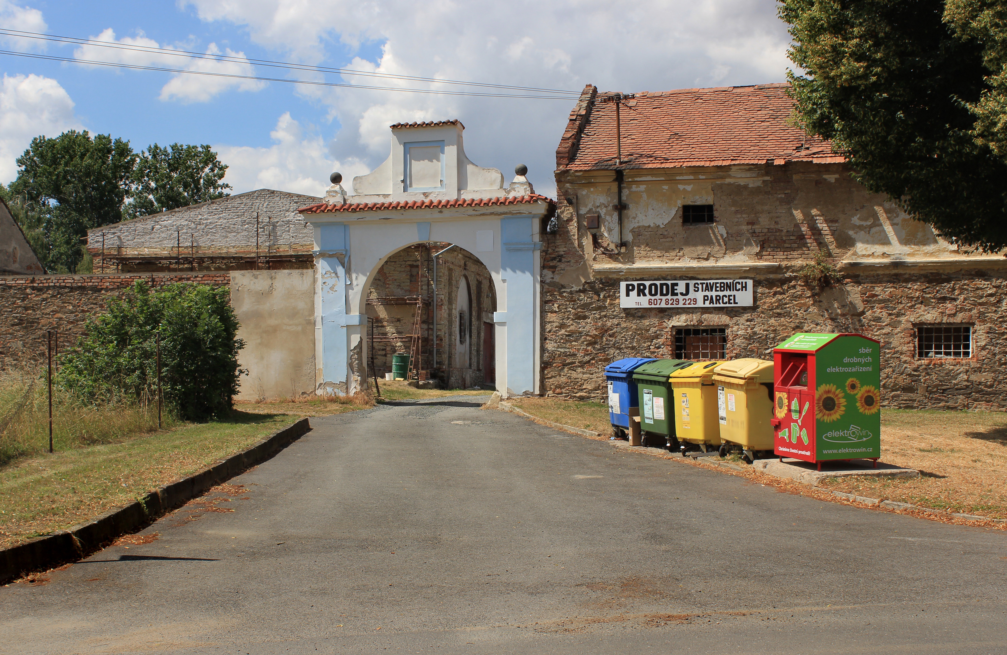 Old farm in Horní Bučice, part of Vrdy, Czech Republic.